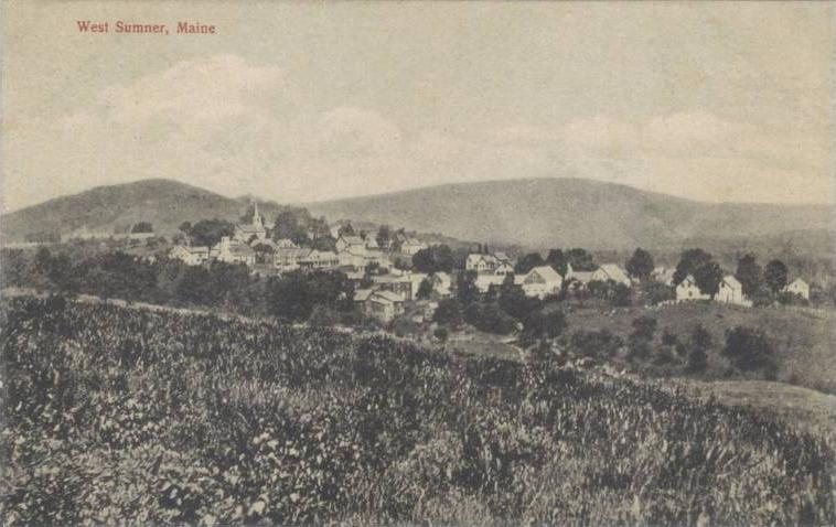 Bird's-eye view of West Sumner, Maine